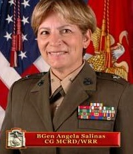 Angela Salinas